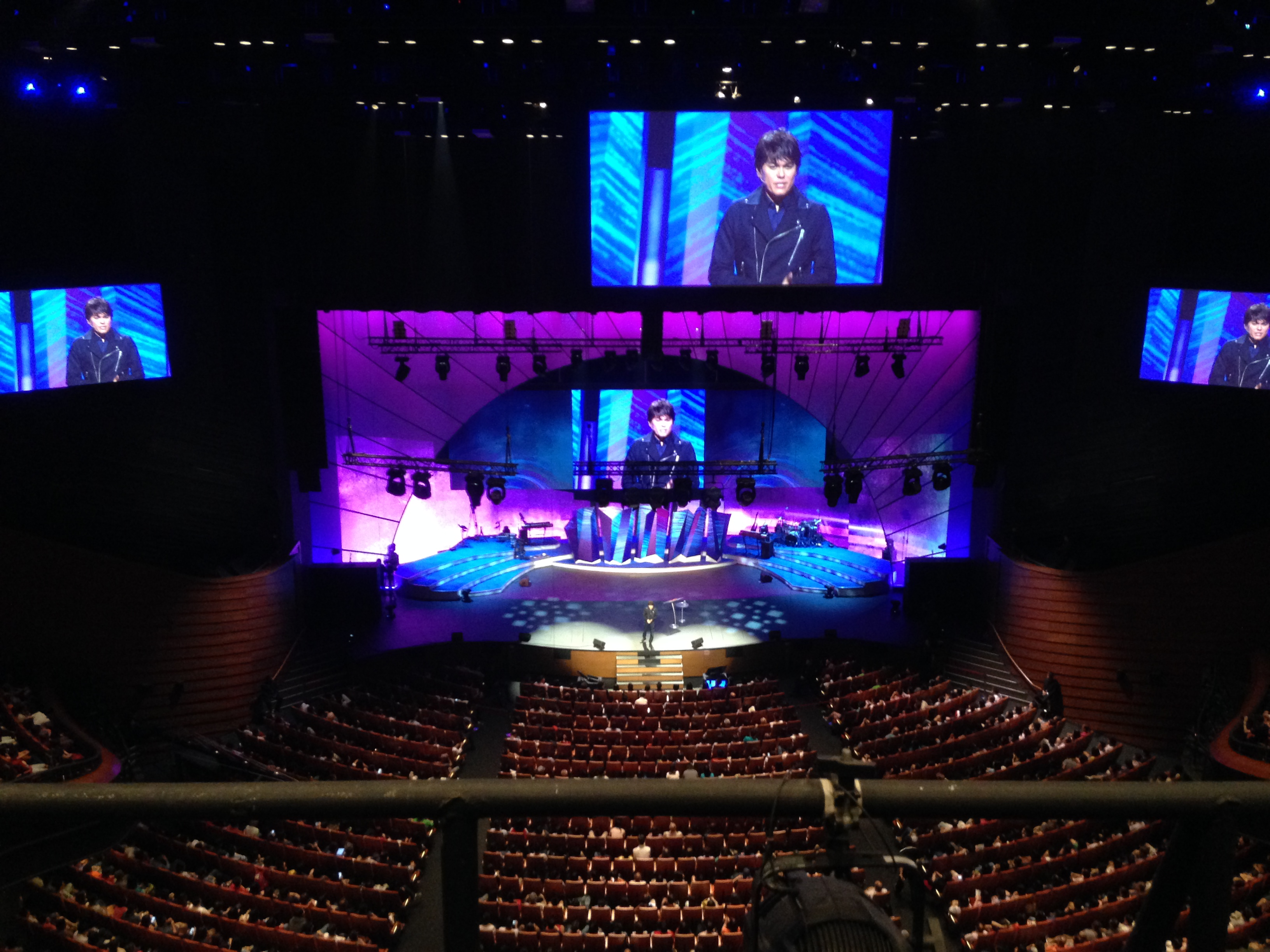 A New Creation Church service, Pastor Joseph Prince on stage